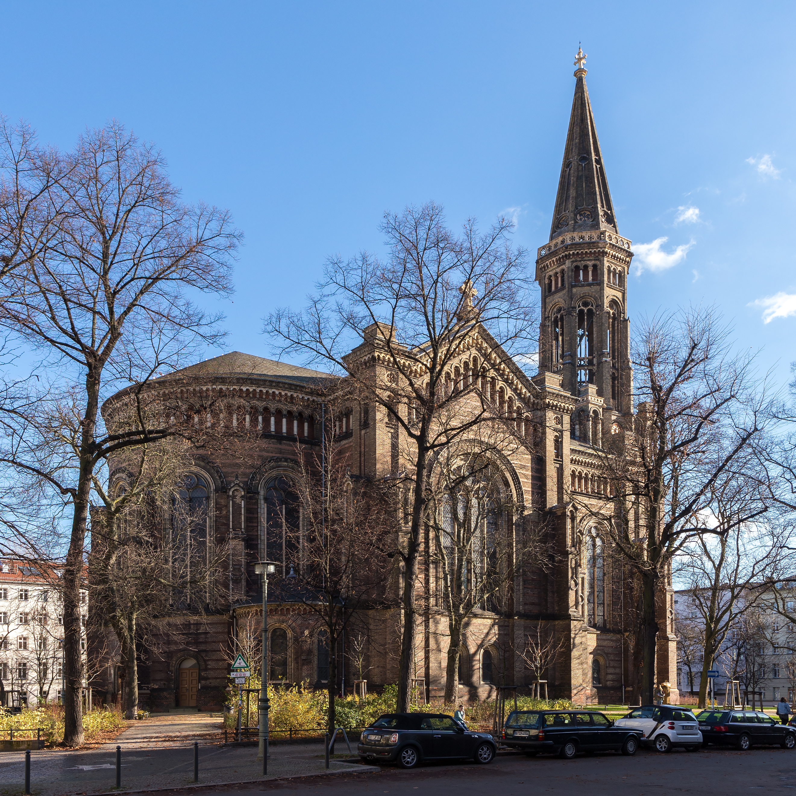 The Zionskirche in Berlin-Mitte as seen from north west.